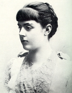 Baroness Mary Vetsera